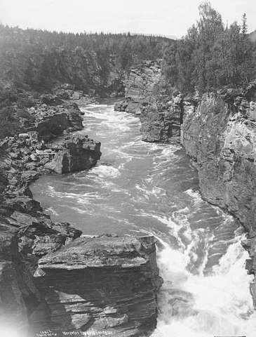 Waterfall Harpefossen in river Gudbrandsdalslågen